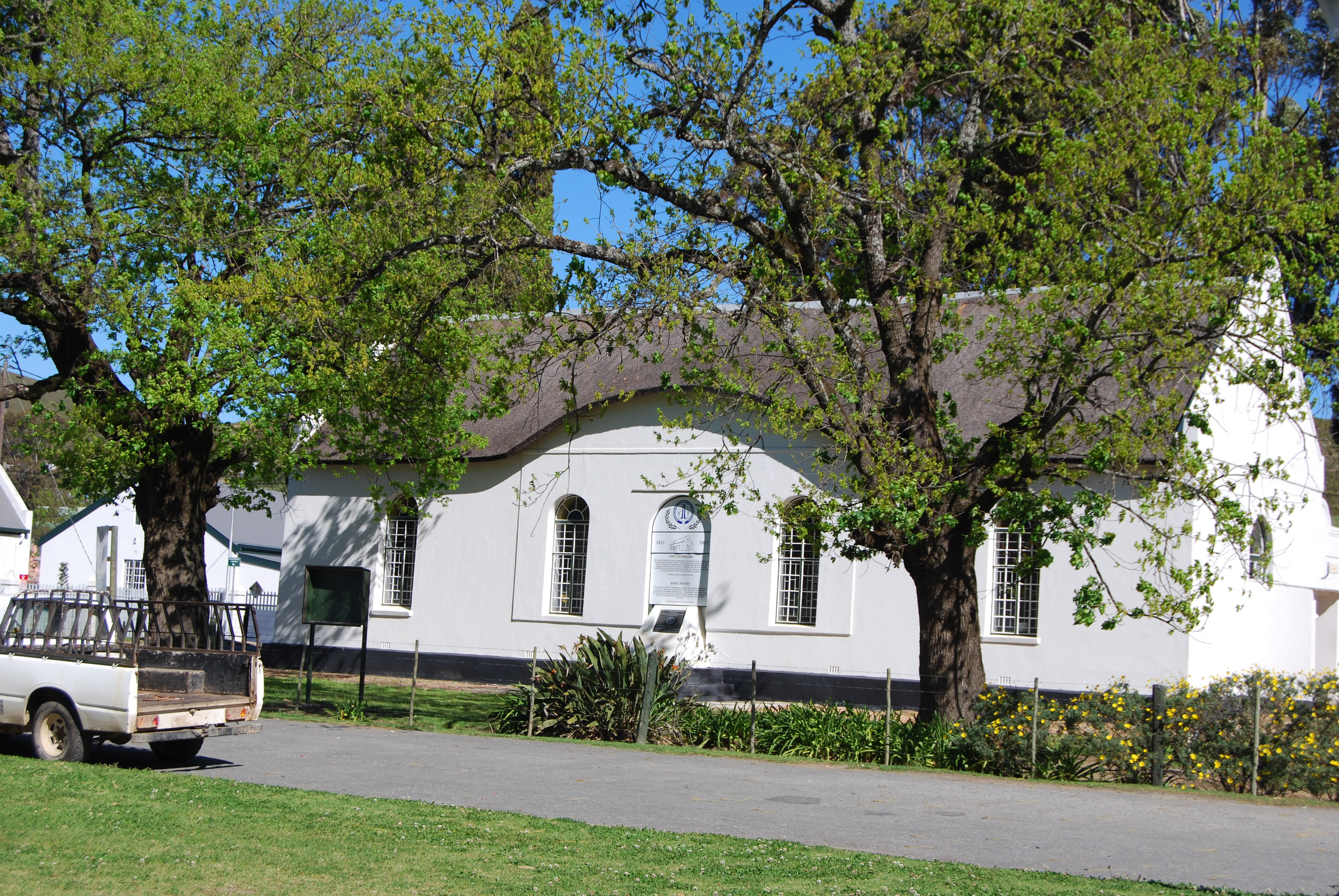 This media shows a South African Protected Site with SAHRA file reference 9/2/092/0006.